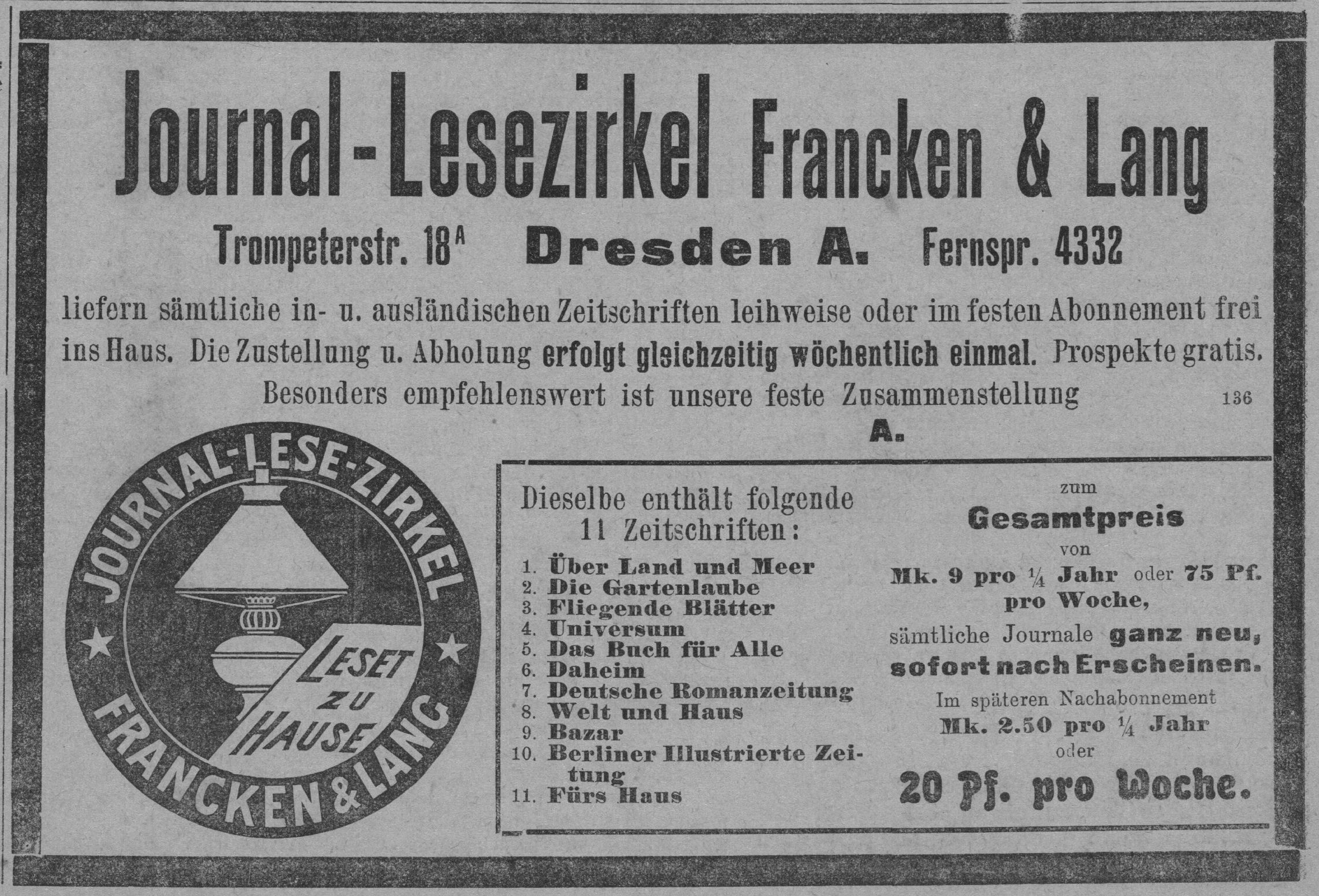 Scan from the Dresdner Journal, 1906